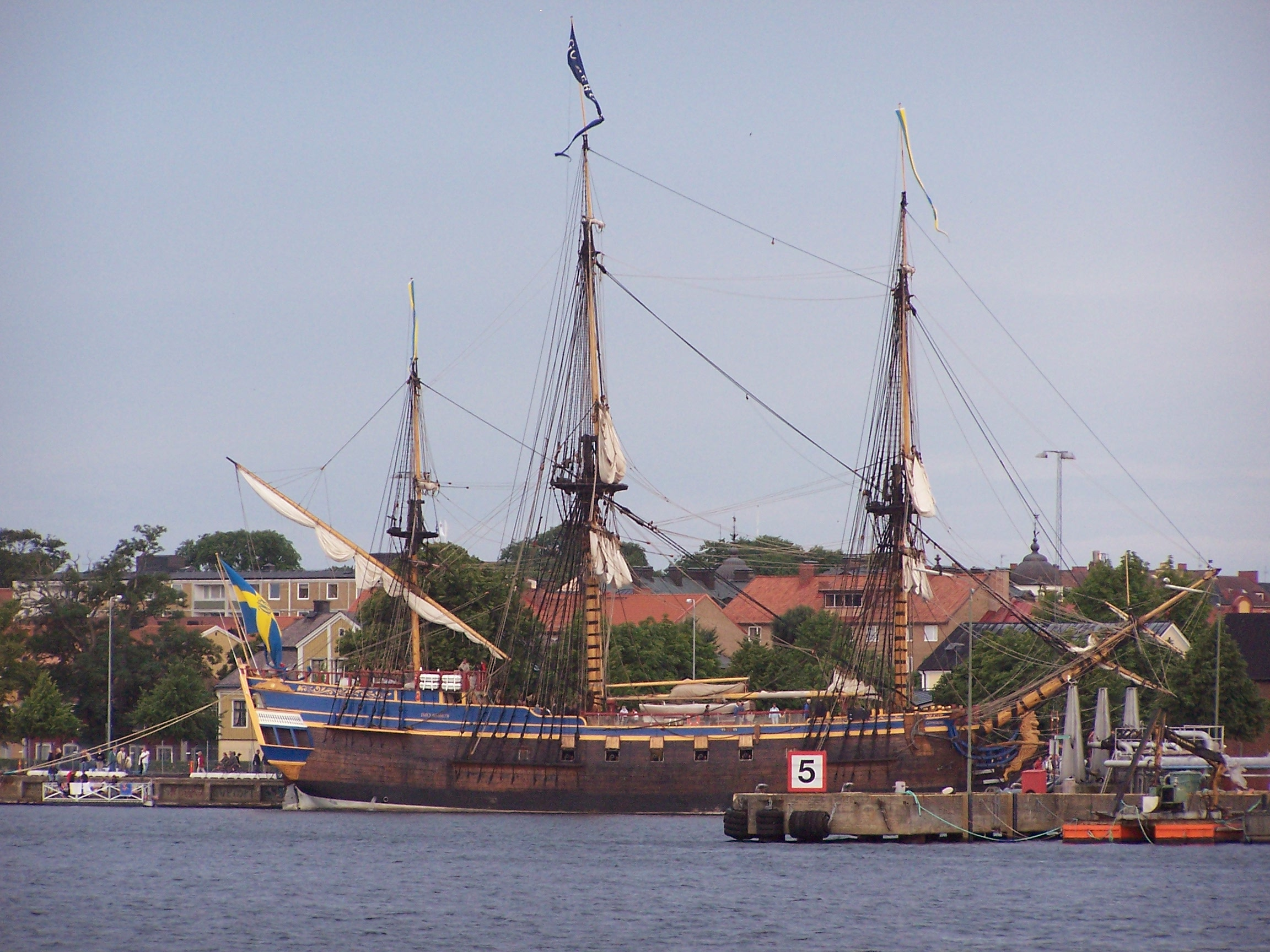 Götheborg (sailing ship replica).